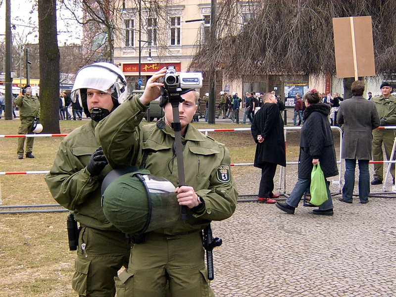 The image shows policemen of Berlin filming demonstrants. The picture was photographed during a demonstartion against the german party "NPD" on 04-01-2006.